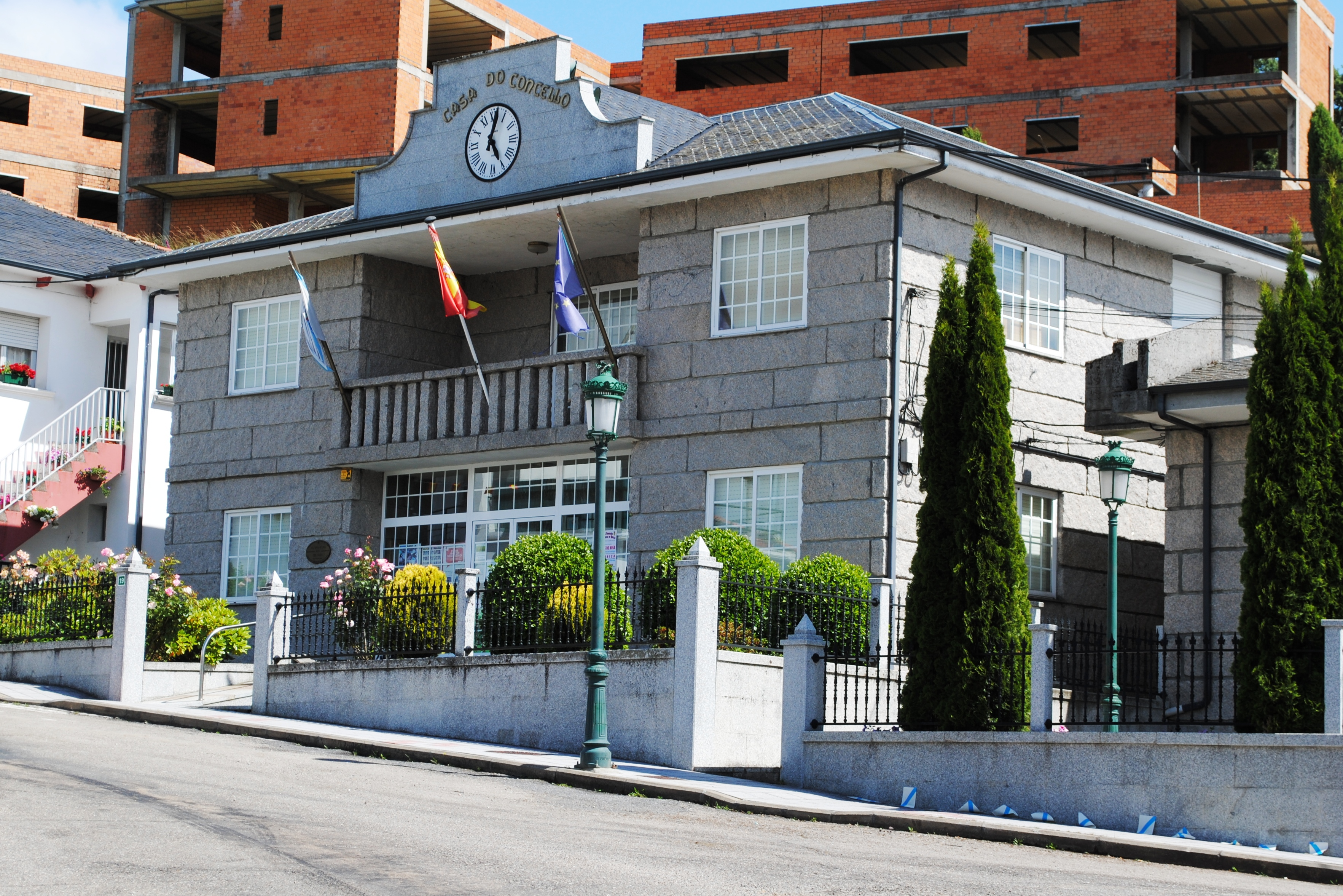 See titlle.